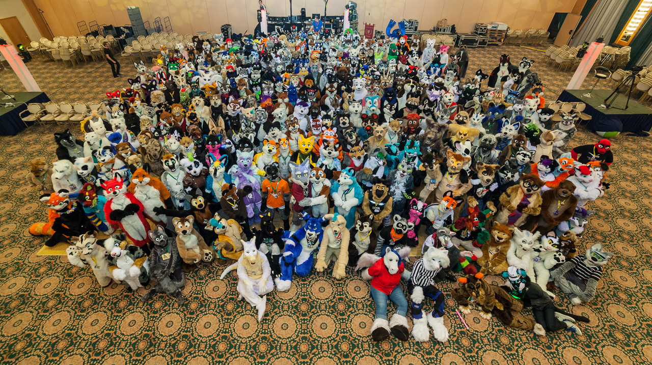 Eurofurence 18 Photo Group